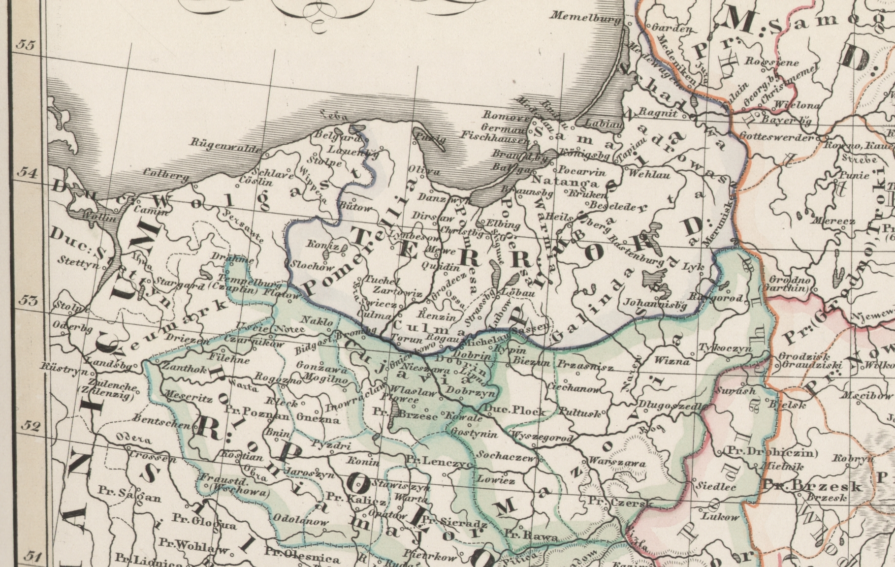 Pomerelia 1125 - 1386